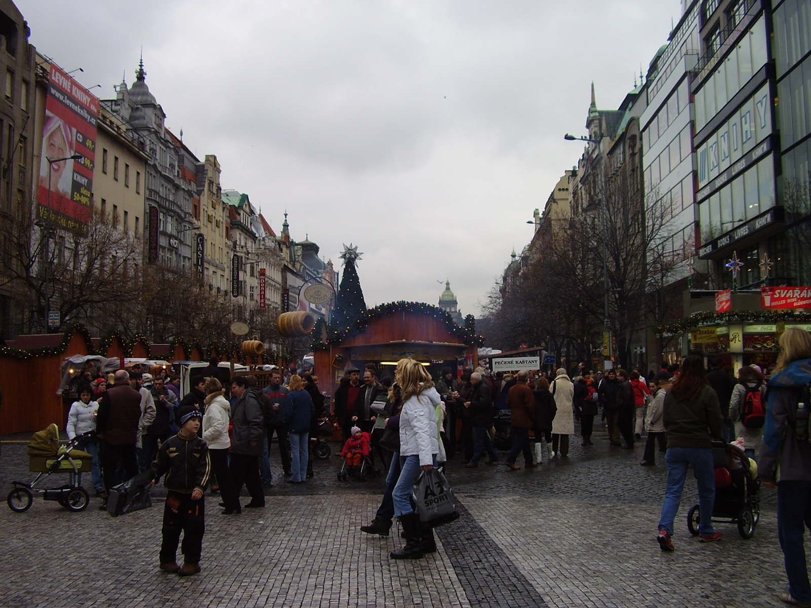 Prague november 2006